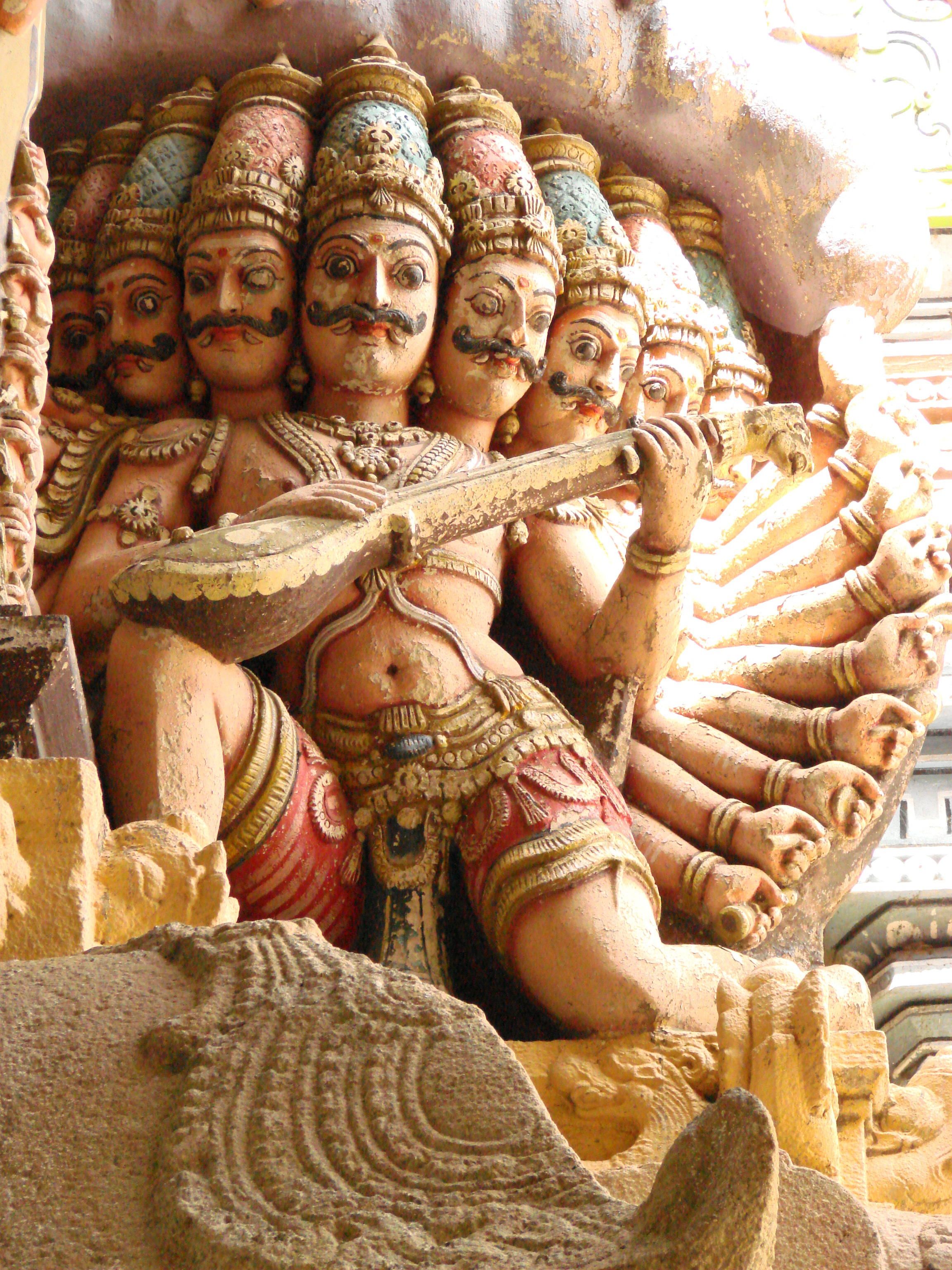 Sculpture in the Sri Meenakshi-Sundareshwarar Temple in Madurai, India. June 2008.